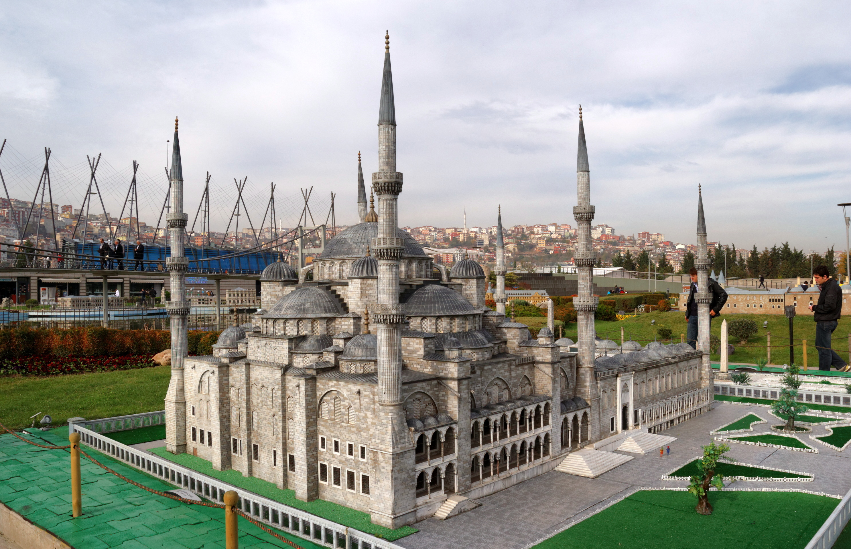 Istanbul. Miniatürk. Sultan Ahmed Mosque